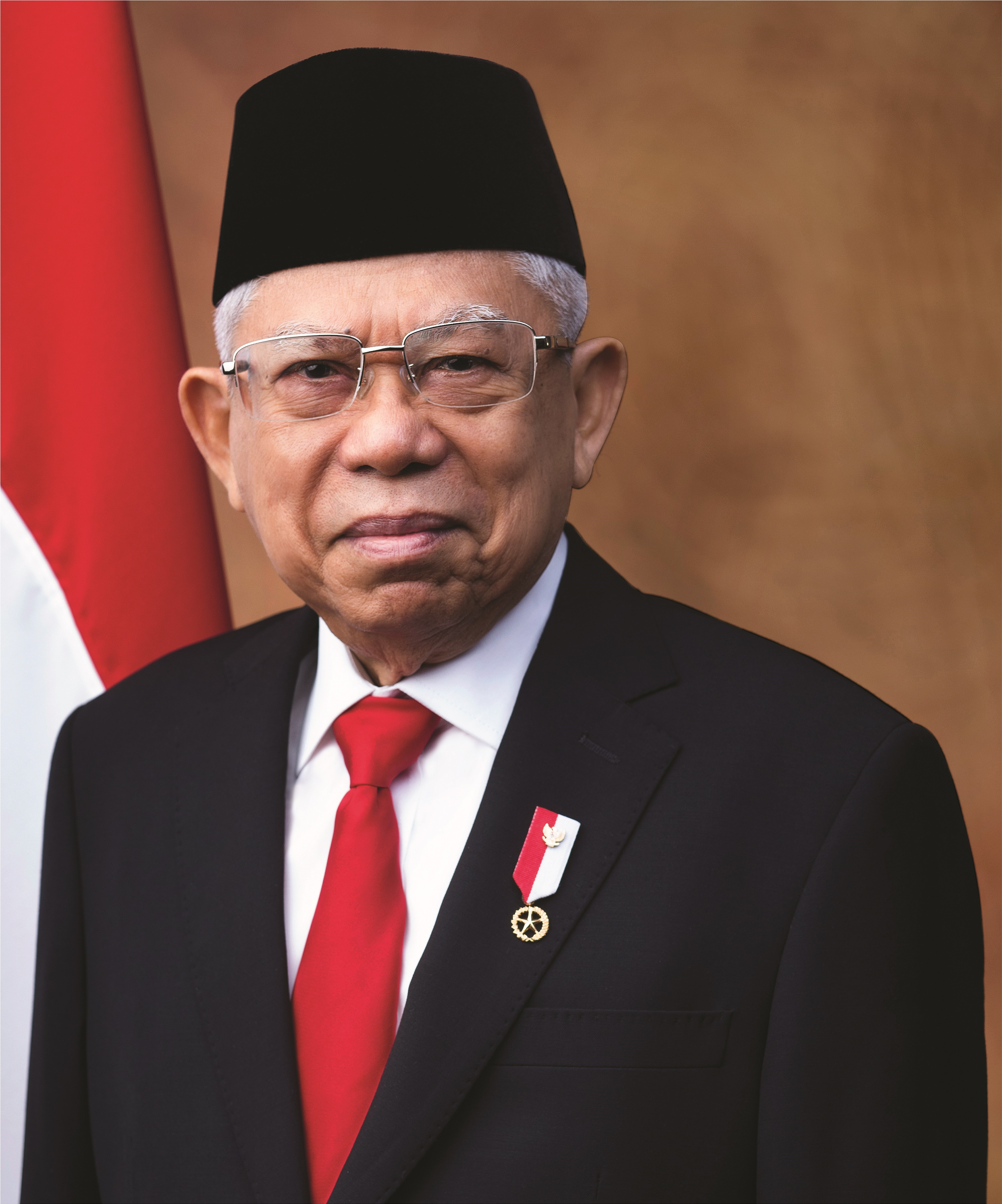 Indonesian VP Ma'ruf Amin's 2019 official portrait, uploaded by the Ministry of State Secretariat of the Republic of Indonesia.